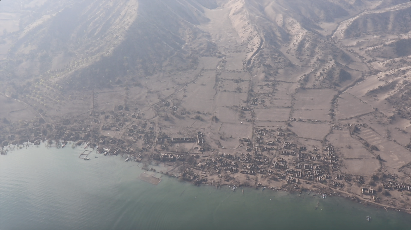 Aerial shot of a portion of (Taal's) volcano island. Noticeable is the destruction of almost all houses due to the eruption of Taal Volcano. The Volcano Island is under "Permanent Lockdown"